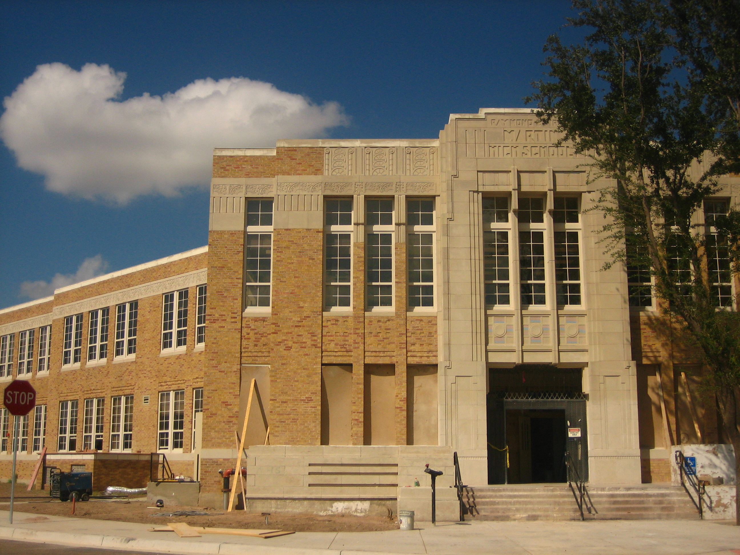 I took photo on Nov. 3, 2008.Billy Hathorn (talk) 02:59, 4 November 2008 (UTC)